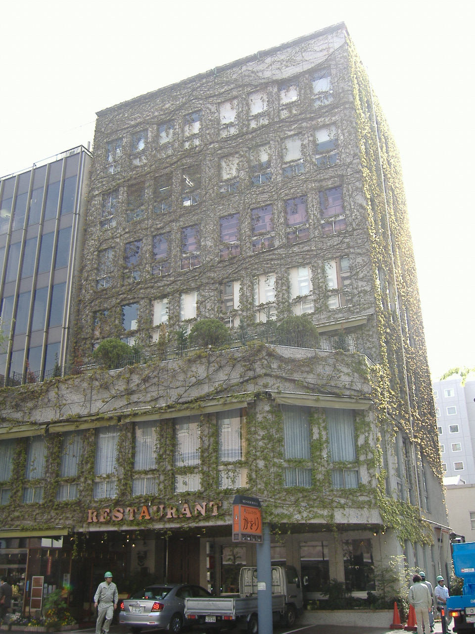 Kawori Confectionery (Yokohama, Japan)